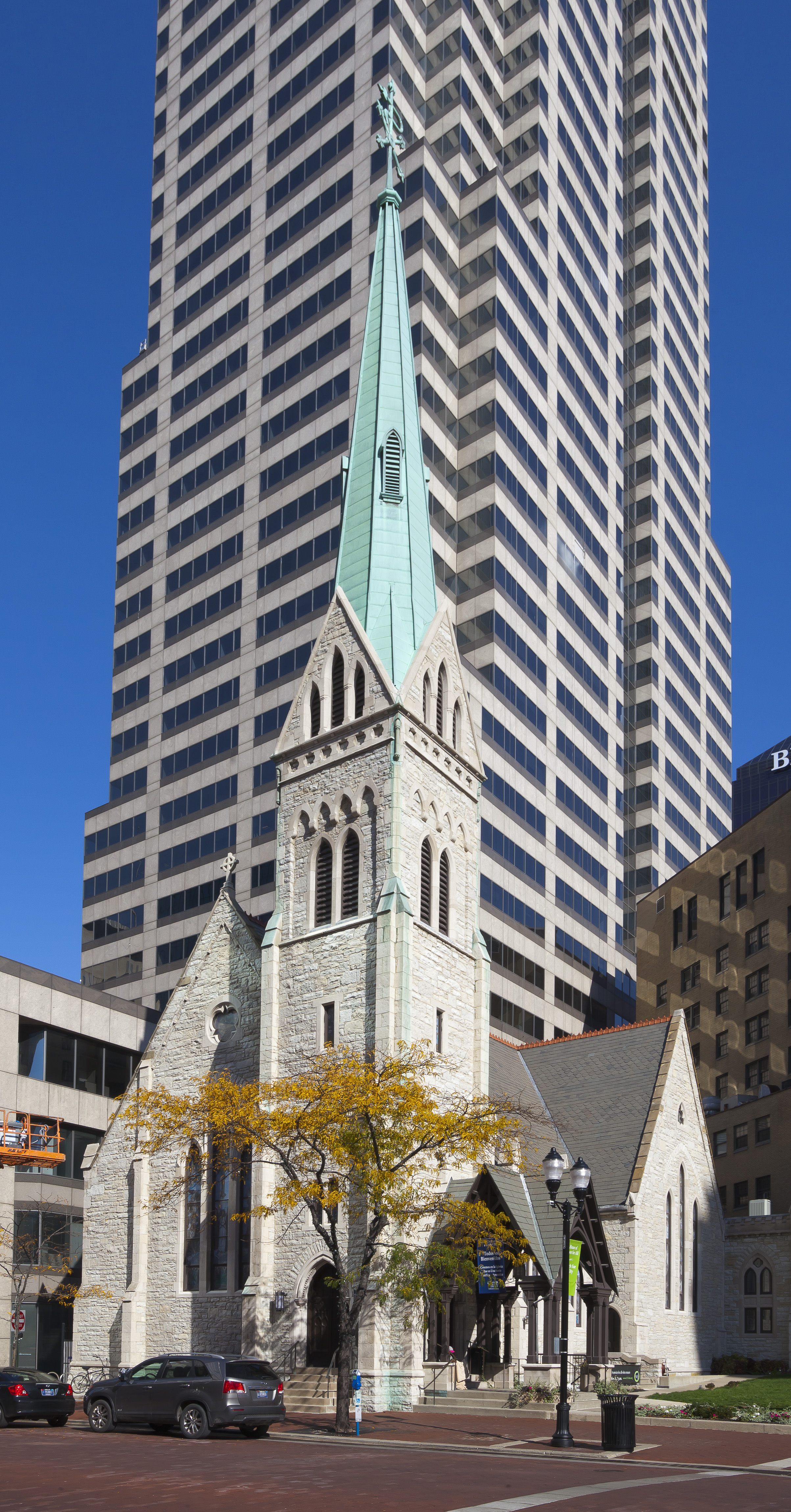 Christ Church Cathedral, Indianapolis, USA